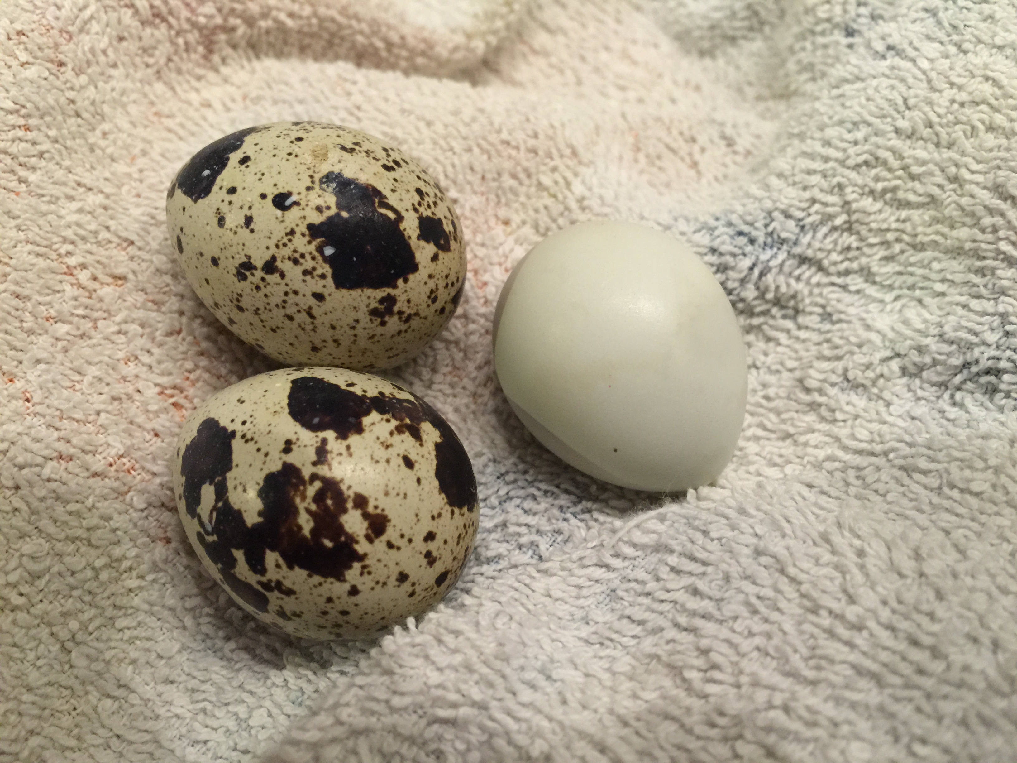 normal colar Quail's egg and white colar Quail's egg